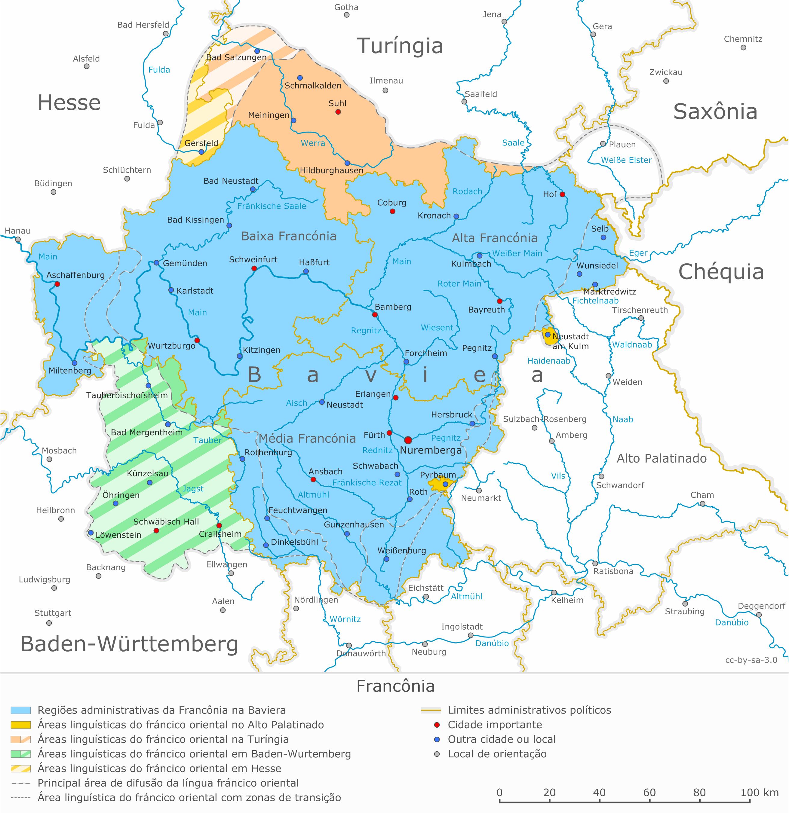 Franconia